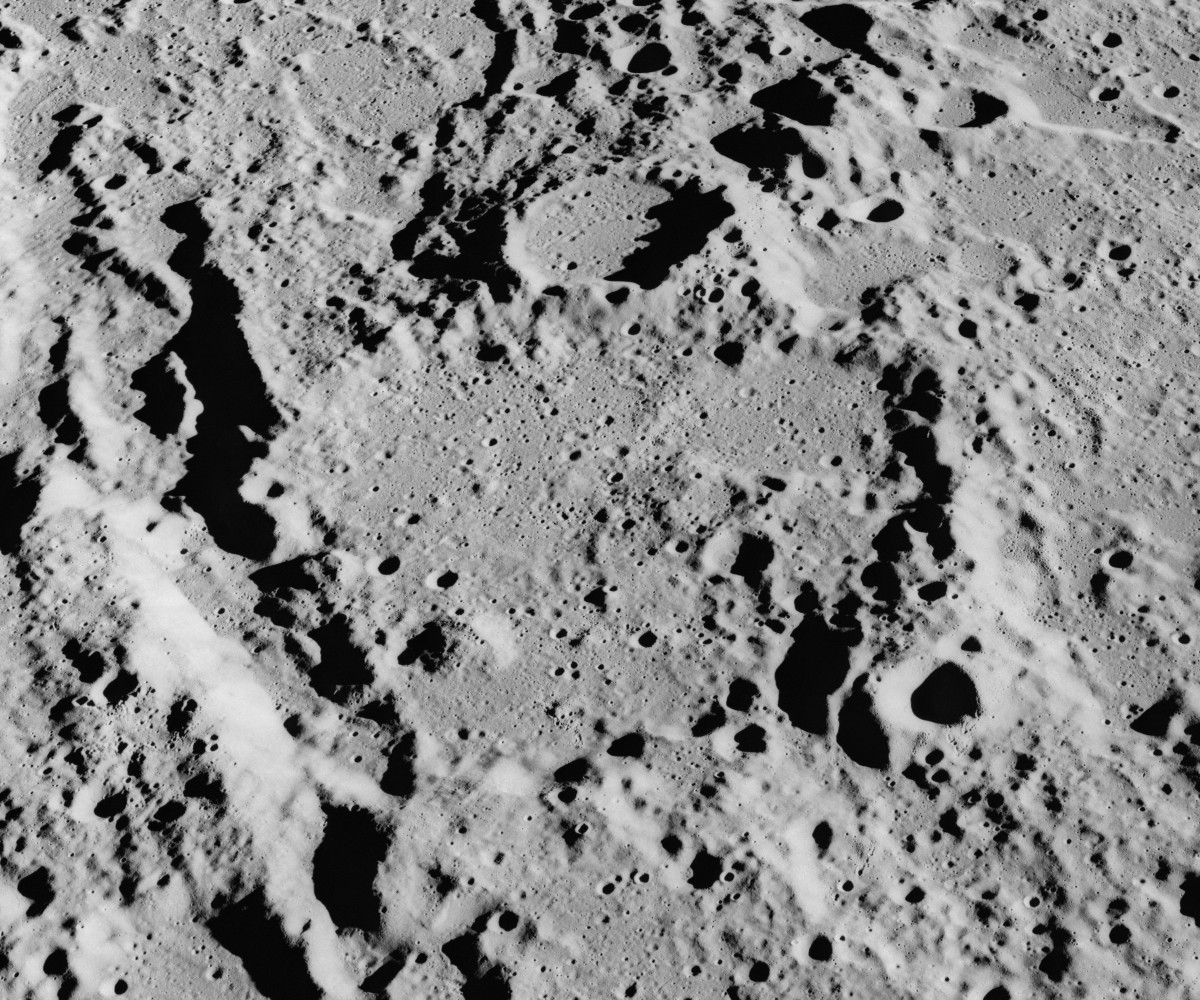 Oblique view of Gyldén crater, on the moon, facing north.